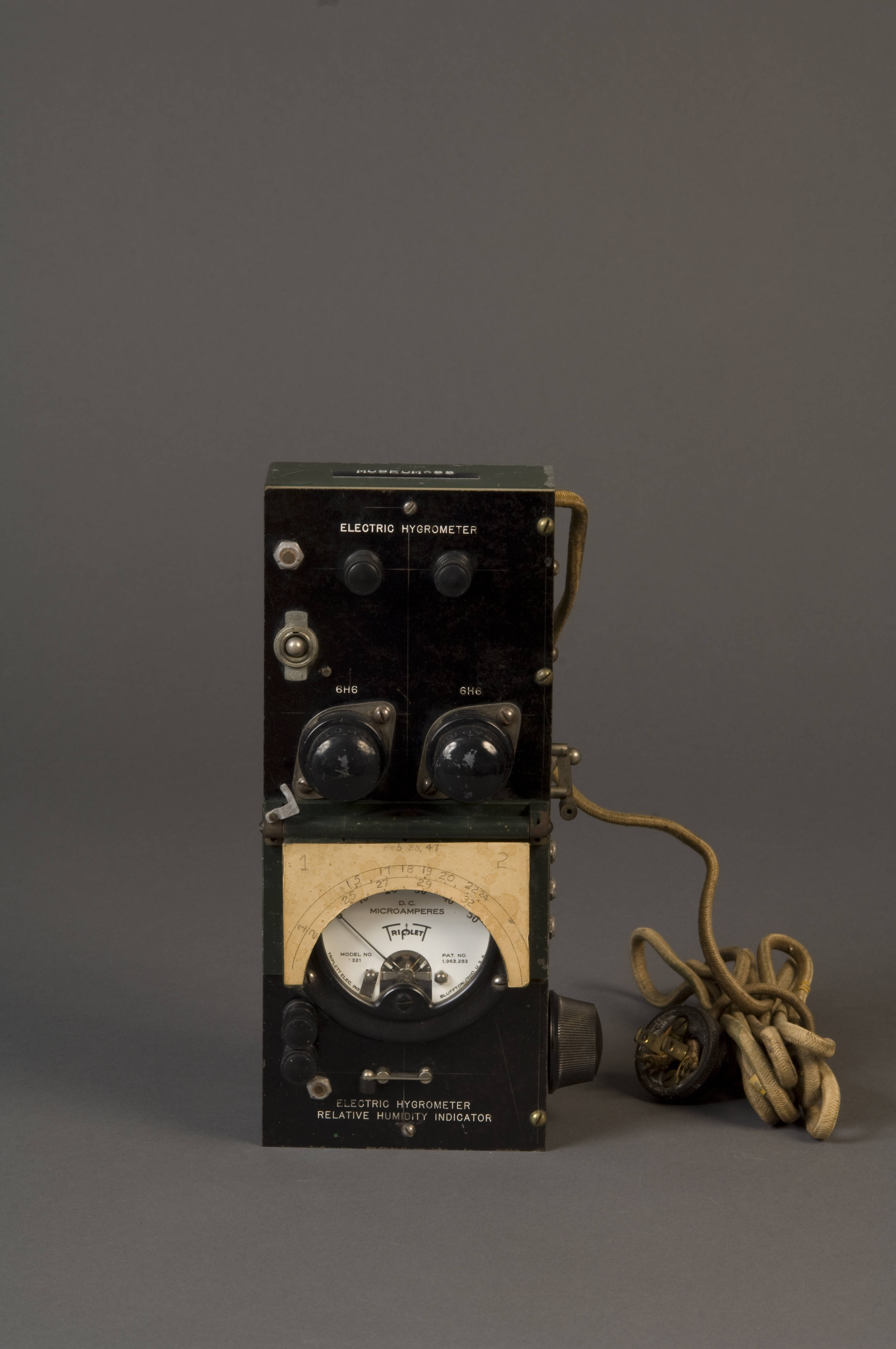 This sensor was developed by Francis W. Dunmore of the National Bureau of Standards around 1938. It consists of a pair of noble metal wires wound on a plastic form. A solution containing lithium chloride is applied between the wires. The lithium chloride is hygroscopic and changes resistance with changes in relative humidity. The logarithm of the resistance varies approximately in proportion to the logarithm of the relative humidity. The advantages of the Dunmore sensor were the increased speed of response and its applicability to remote indication systems as in radiosonde units.